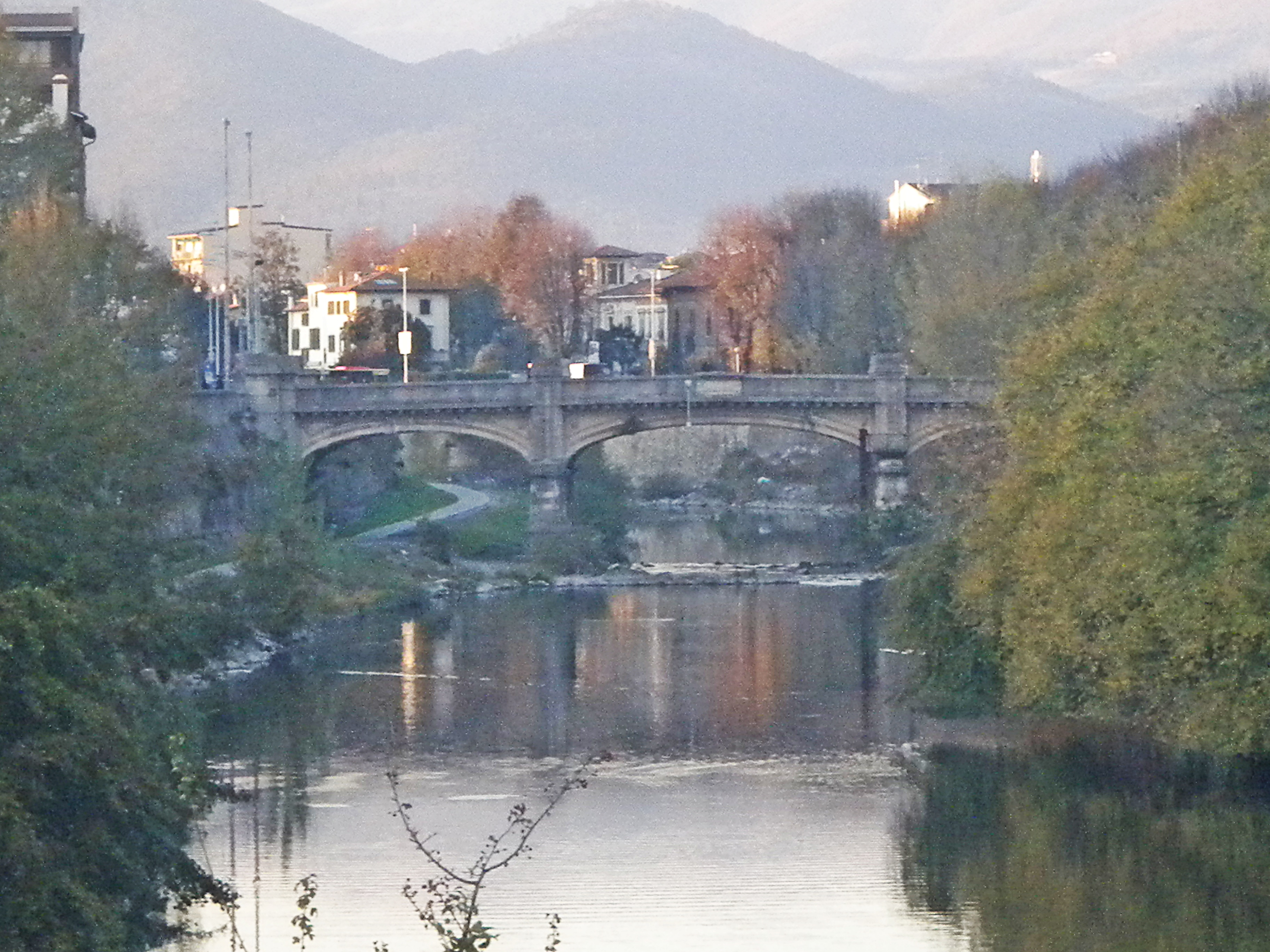 Vittoria bridge